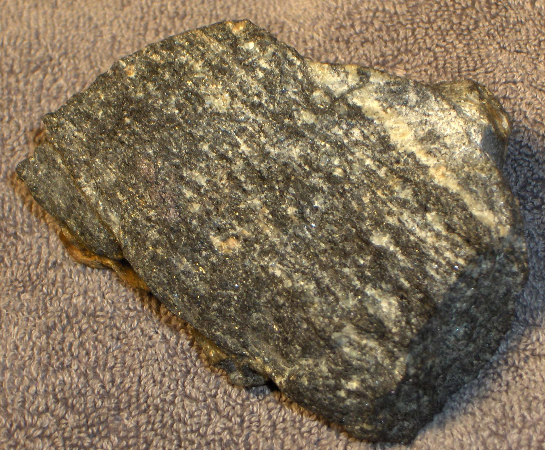 Deep time. Oldest rock. A fist-sized sample from the Acasta River, an obscure little drainage up near Great Bear Lake, Northwest Territories, Canada. This was collected from what is the oldest known rock formation on the planet, clocking in at 4.03 billion years in age, as dated by many labs. Postscript: Further age-dating has now pushed matters in the Acasta River locale back to 4.2 billion years. Since I collected this sample from the 4.03 site, I`ll leave it as is.